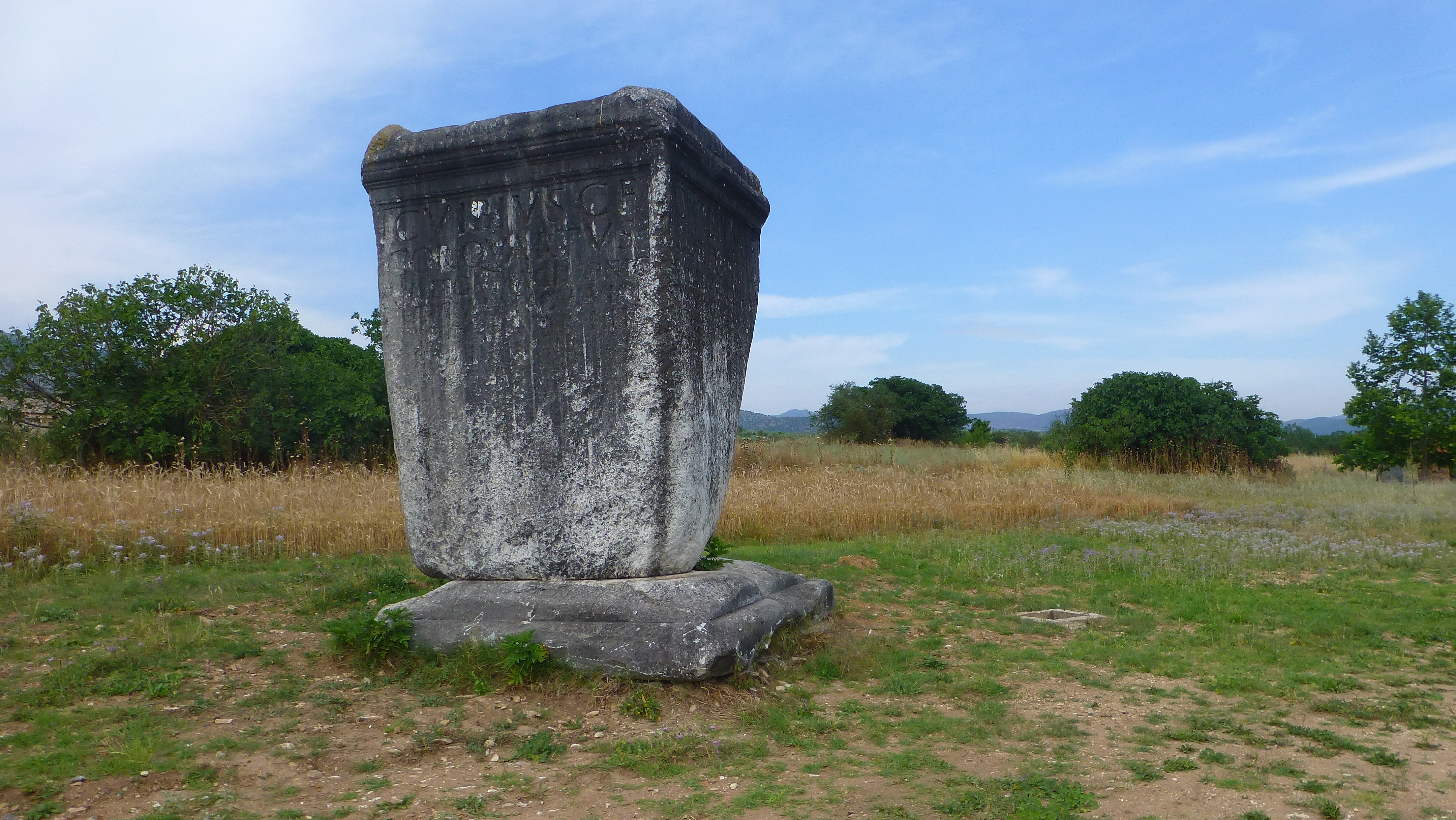 Gaius Vibius Monument at Philippi, Kavala, Greece. CIL III 647 = CIL IIII 7337 = AE 2003, 1606: C(aius) Vibius C(ai) f(ilius) / Cor(nelia) Quartus / mil(es) leg(ionis) V Macedonic(ae) / decur(io) alae Scubulor(um) / praef(ectus) coh(ortis) III Cyren ic(ae) / trib(unus) leg(ionis) II Augusta[e] / [p]raef(ectus) [----- The "sinful monument"